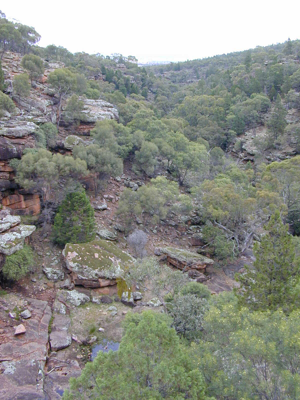 The image is of Store Creek in Cocoparra National Park. It was taken by Colin Killick Article name: Cocoparra National Park